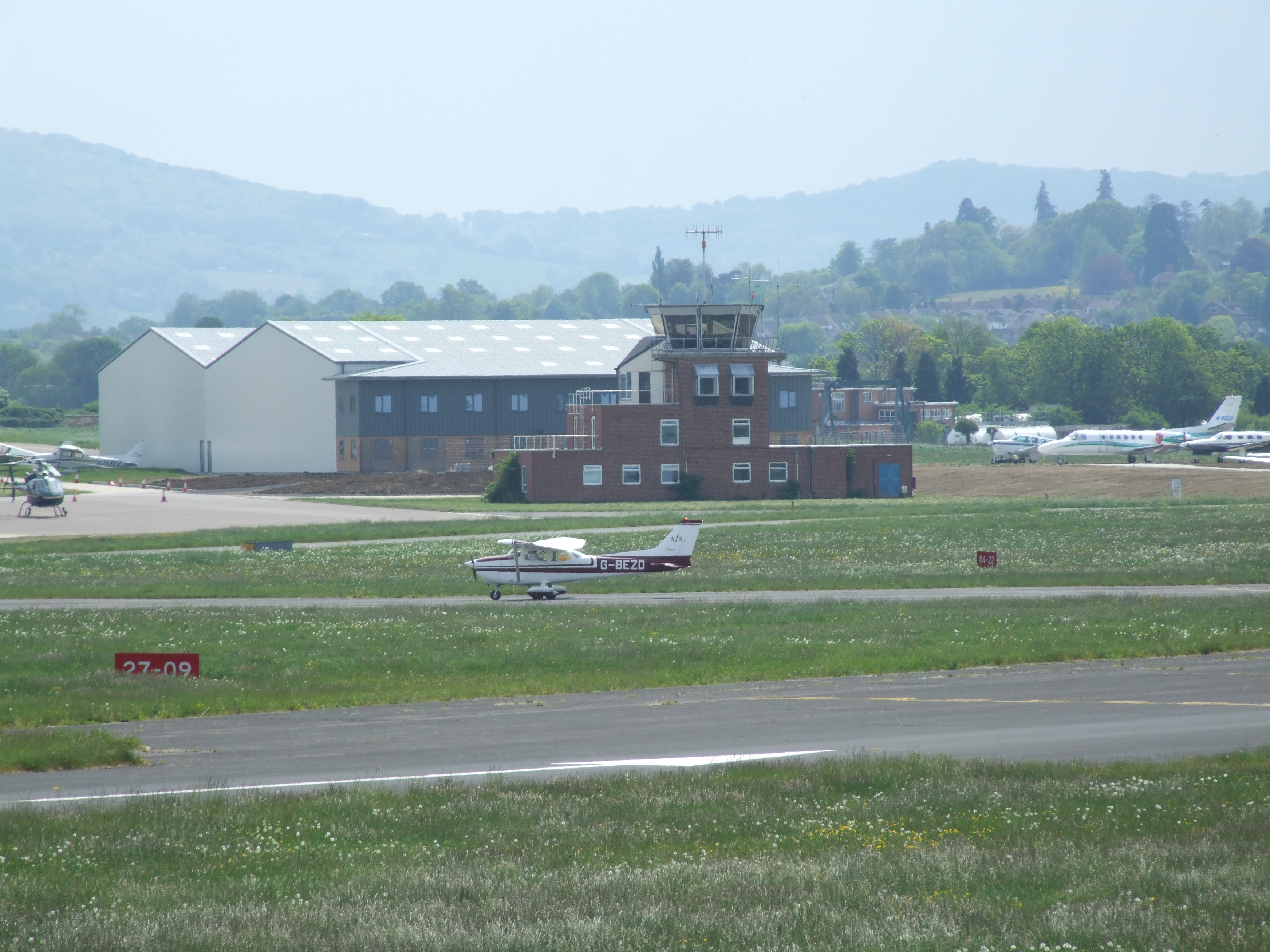 Cessna 172 (G-BEZO) belonging to the Staverton Flying School at Gloucestershire Airport. The control tower and part of the tower apron are visible in the background.